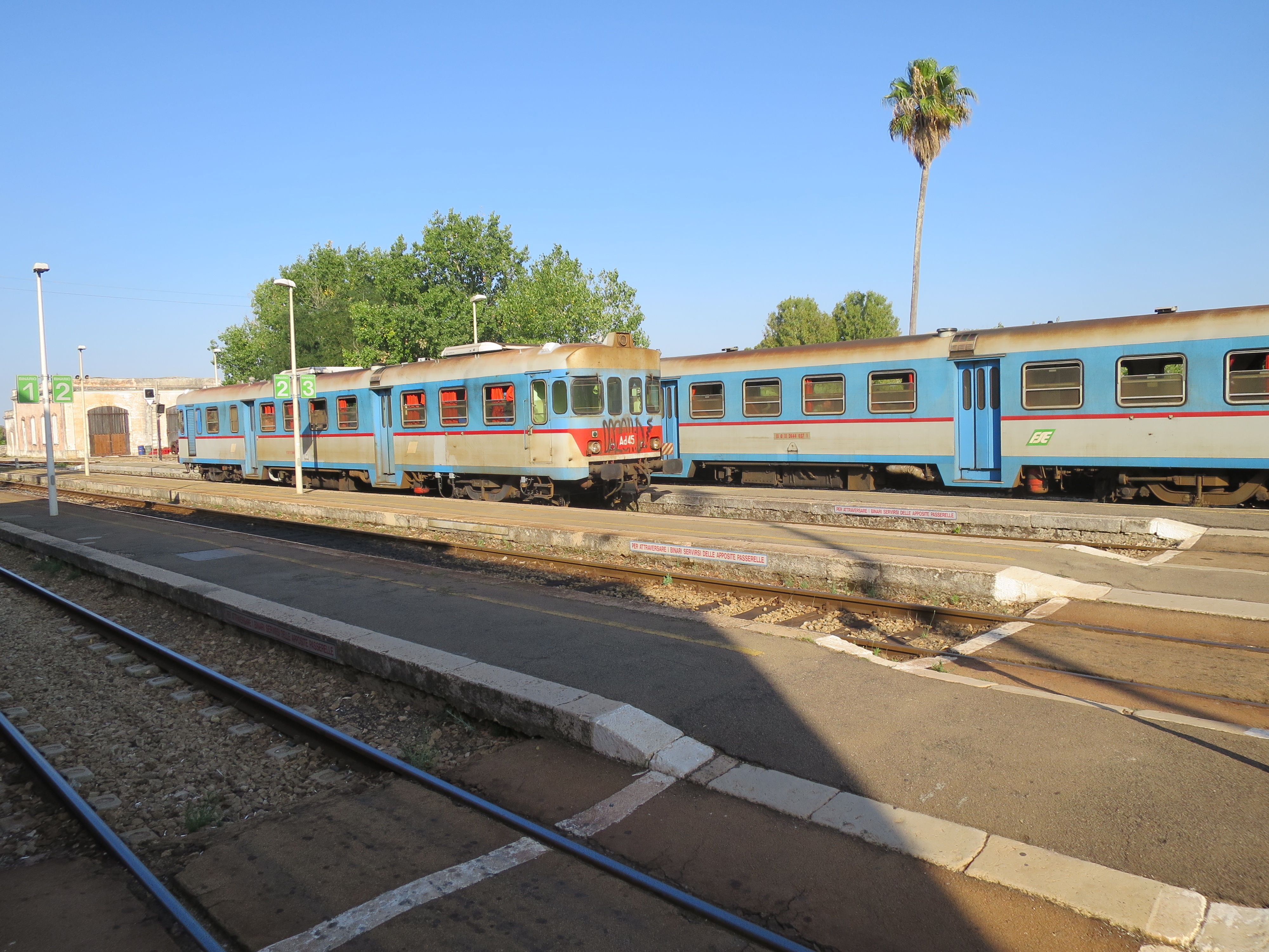 Nardo Centrale Rly. St.